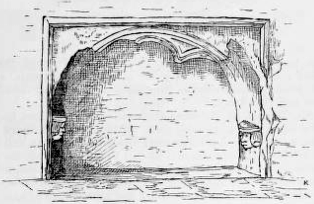 1888 drawing of empty arched and cusped recess in Luppit Church, Devon, suggested by Rogers to have housed originally the effigy of John Carew (d.1324) of Mohuns Ottery in the parish of Luppit.